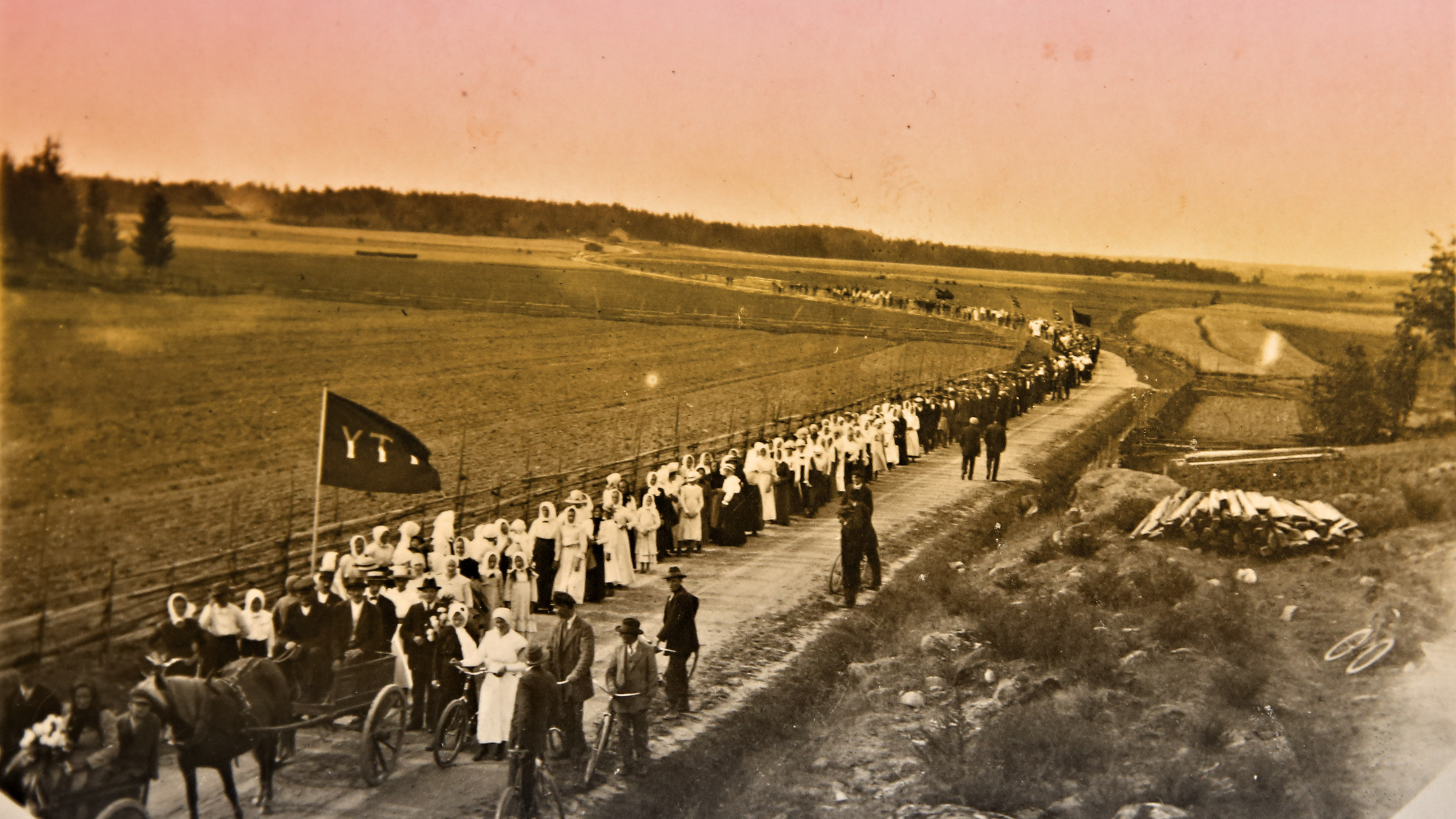 Funeral of Simo Saarikko, who was killed by the police during the farm workers strike in Ypäjä, Finland, in 9 August 1917.